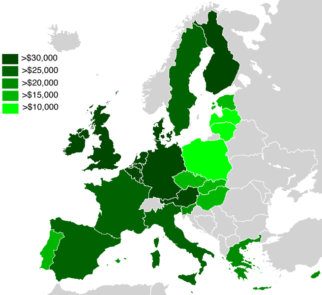 A map showing the GDP per capita of the European Union members in 2005